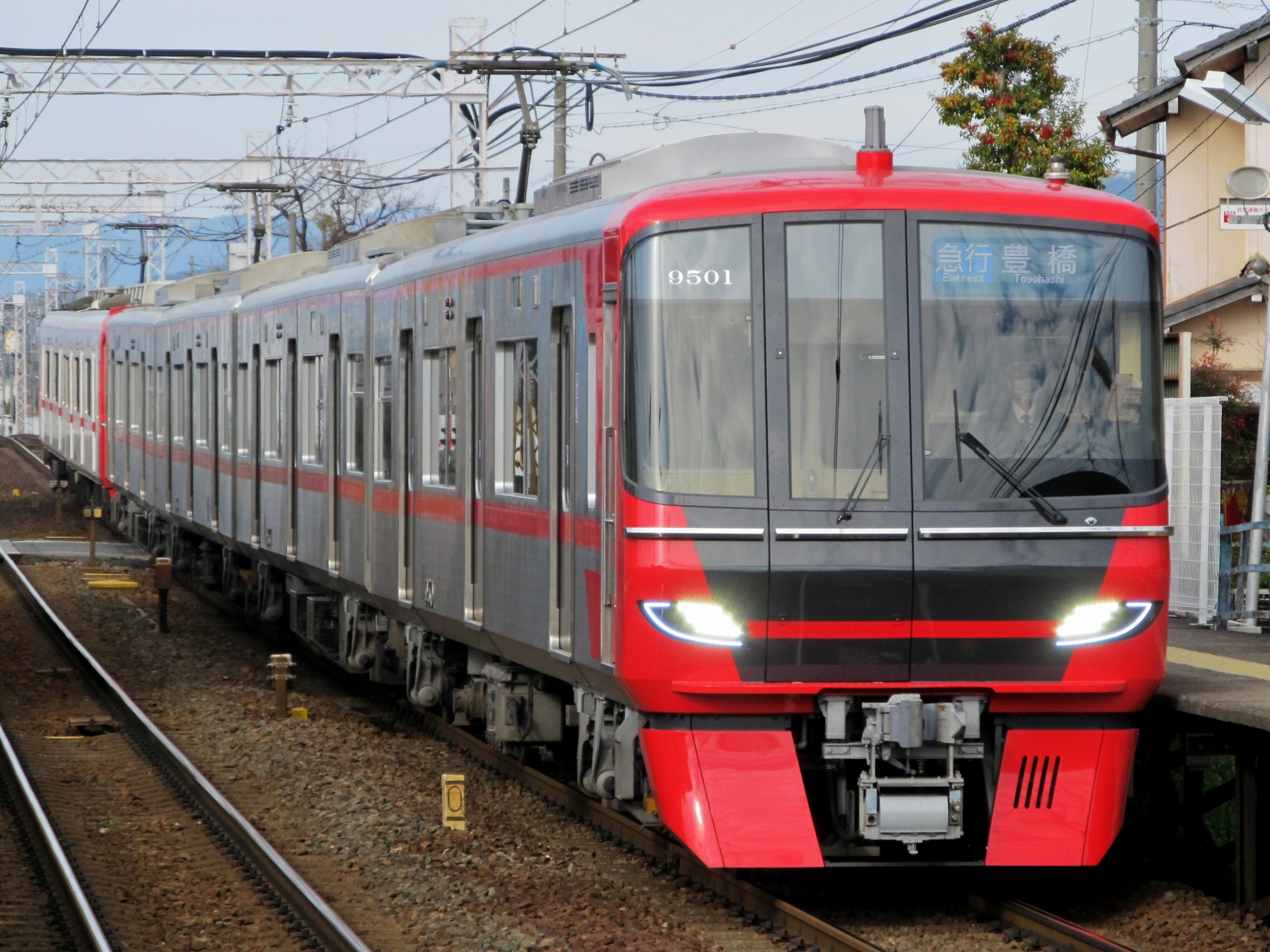 Meitetsu 9500 series. Express bound for Toyohasi.